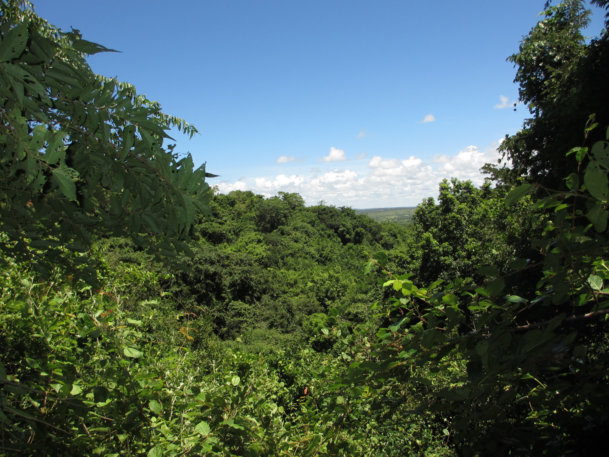 A small patch of humid forest within a doline with several springs, near Pemba in Cabo Delgado province in northern Mozambique.